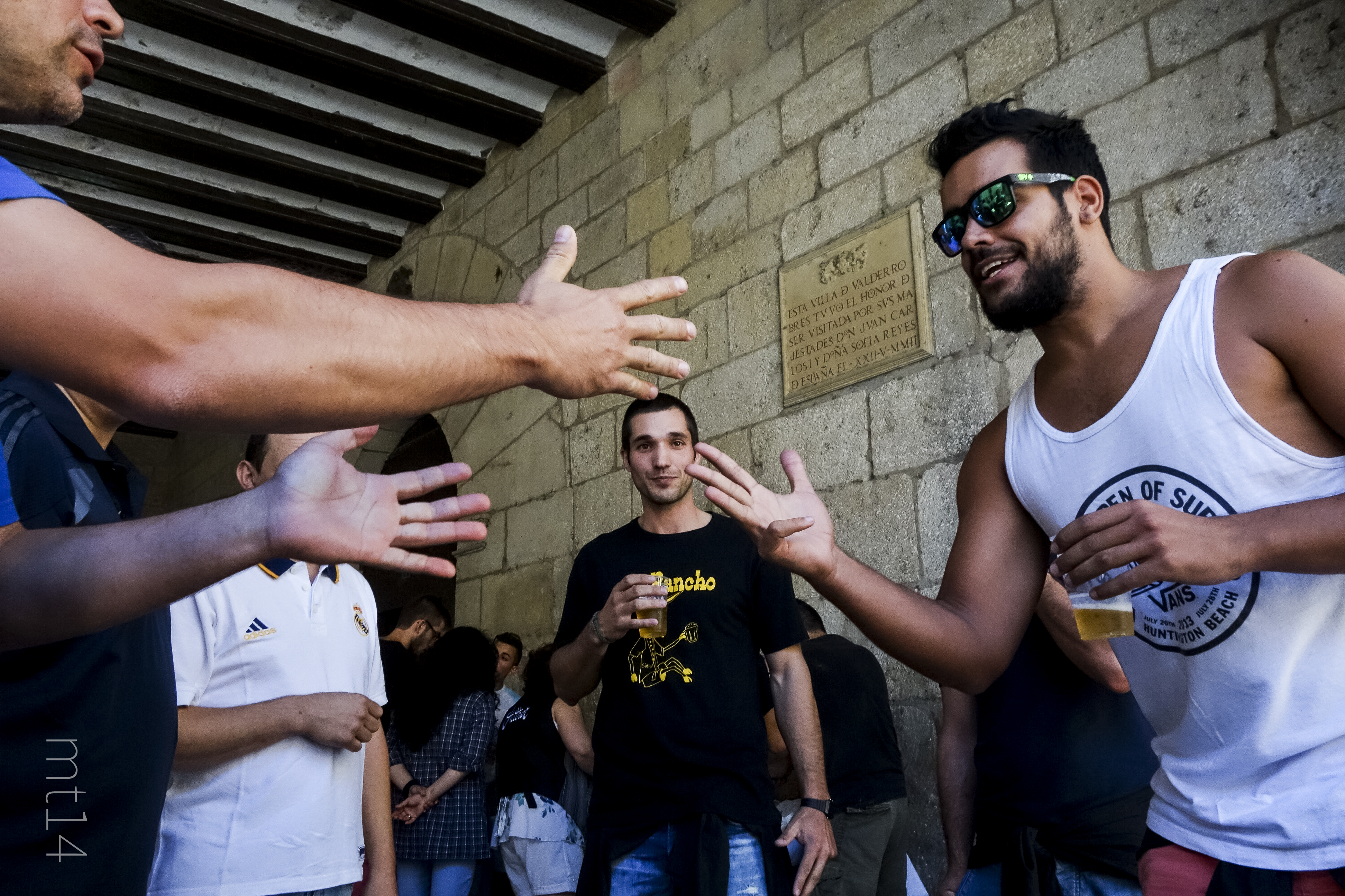 Players of traditional Morra game